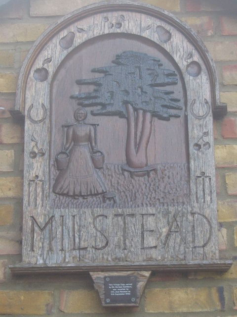 Milstead Village Sign on Village Hall. Carved wooden sign on the village hall (seen in 1461609). Has small metal plaque below which reads 'The Village sign, carved by Mr. Norman Smithers, was unveiled by Cllr. Jean Newman on 11th September 1993'. The name Milstead describes a 'milk place', hence milk maid on sign.